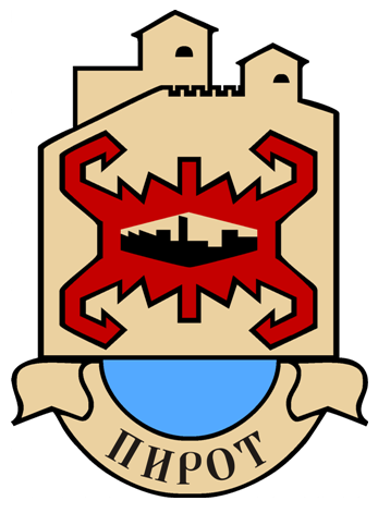 Emblem of Pirot, Serbia